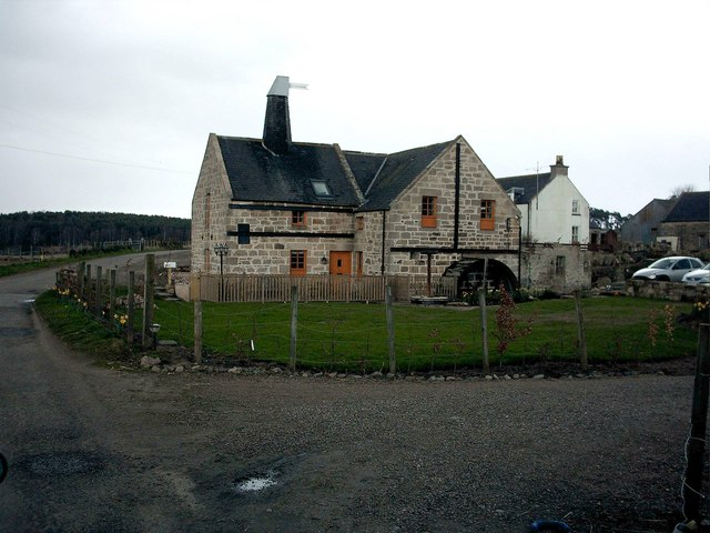 Longhill Mill near Lhanbryde Beautifully converted Mill is now a dwellinghouse.